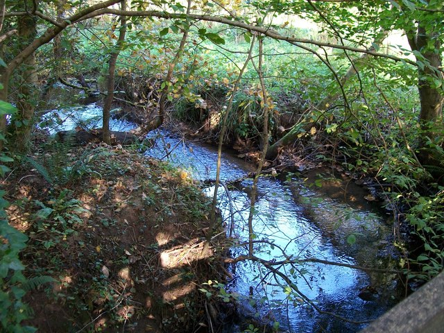 Afon Lleiniog upstream of the wooden bridge leading to Castell Aberlleiniog